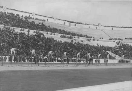 German team at parallel bars during 1896 Summer Olympics